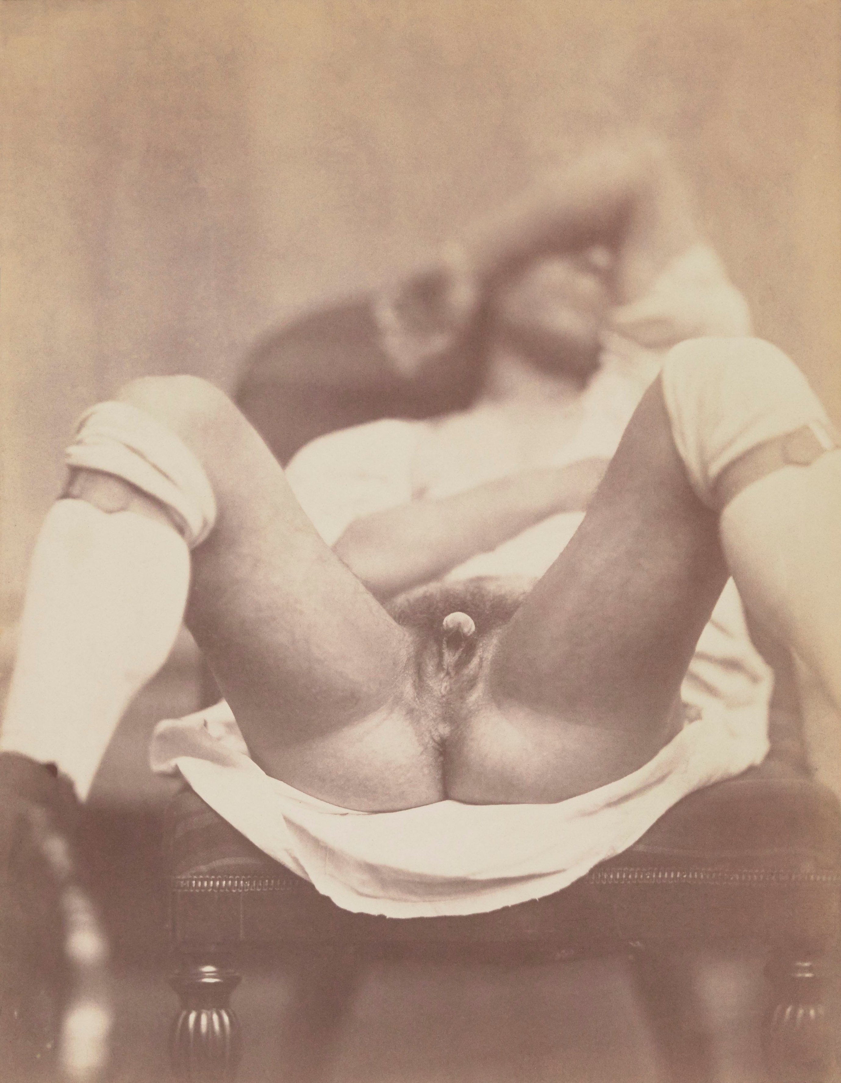 "Hermaphrodite" (the term then in common use for intersex people). An 1860 photograph. Part of a set of nine photographs, of which this is seventh in Gallica's listing. They don't appear to have any official numbering or distinguishing names otherwise. Albumen print.